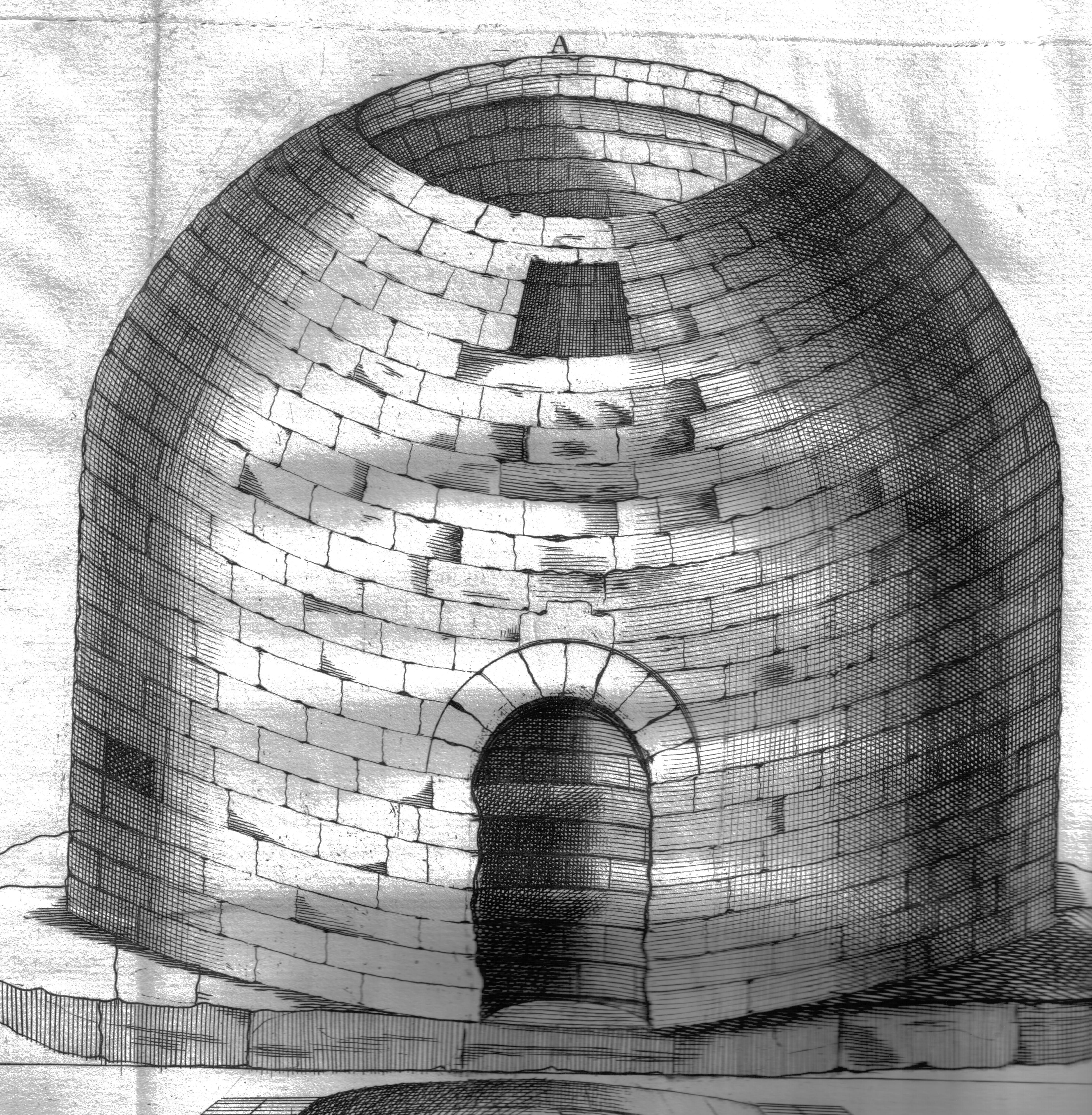 Arthur's Oven or Oon near the Antonine Wall, Scotland in 1726.